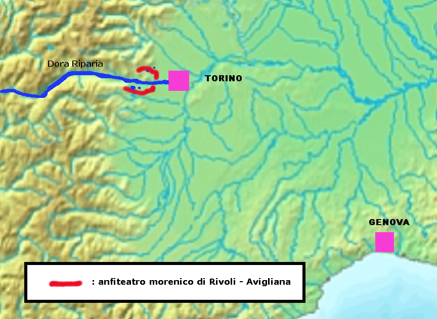 Anfiteatro morenico di Rivoli-Avigliana (TO, Italy): location map